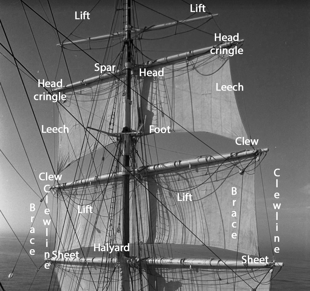 Edges and corners of a square sail are shown on the uppermost sail: The sail is attached to a spar (or yard) at its head and tensioned outwards at the head cringles. The side edges are the leeches. The bottom edge is the foot and is attached to the yard below by sheets (not labelled) at the clews which are the corners. Running rigging is shown on the lower sail: The lifts are shown slack, because the spar (or yard) is raised, but would support the lowered spar, as shown on the topmost spar. The sheets pull the clews down to the yard below when setting sail. The clewlines raise the clews to the yard above when dousing (striking or furling) sail. The halyard raises a yard into place, seen as two line converging on a block, which is attached to a line that goes up to the crosstrees and through a sheave to raise the yard. The braces adjust the sail side-to-side by tension applied from below to a block on the spar, countered by tension at the other end on a mast behind the spar, pulling one end aft and allowing the other end to rotate forward. References: Biddlecombe, George (1990) The Art of Rigging: Containing an Explanation of Terms and Phrases and the Progressive Method of Rigging Expressly Adapted for Sailing Ships, Dover Maritime Series, Courier Corporation, pp. 155 ISBN: 9780486263434. Underhill, Harold A. (1969) Masting and Rigging the Clipper Ship & Ocean Carrier: With Authentic Plans, Working Drawings and Details of the Nineteenth and Twentieth Century Sailing Ship, Glasgow: Brown, Son and Ferguson, pp. 304 ISBN: 0851741738.